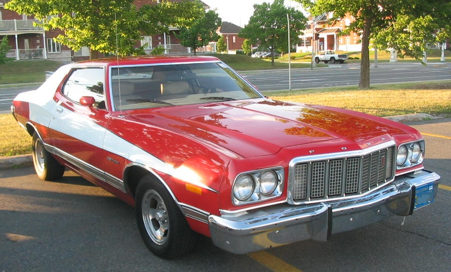 1974 Ford Gran Torino Starsky & Hutch photographed in Dollard Des Ormeaux, Quebec, Canada at the Auto classique Jukebox Burgers.